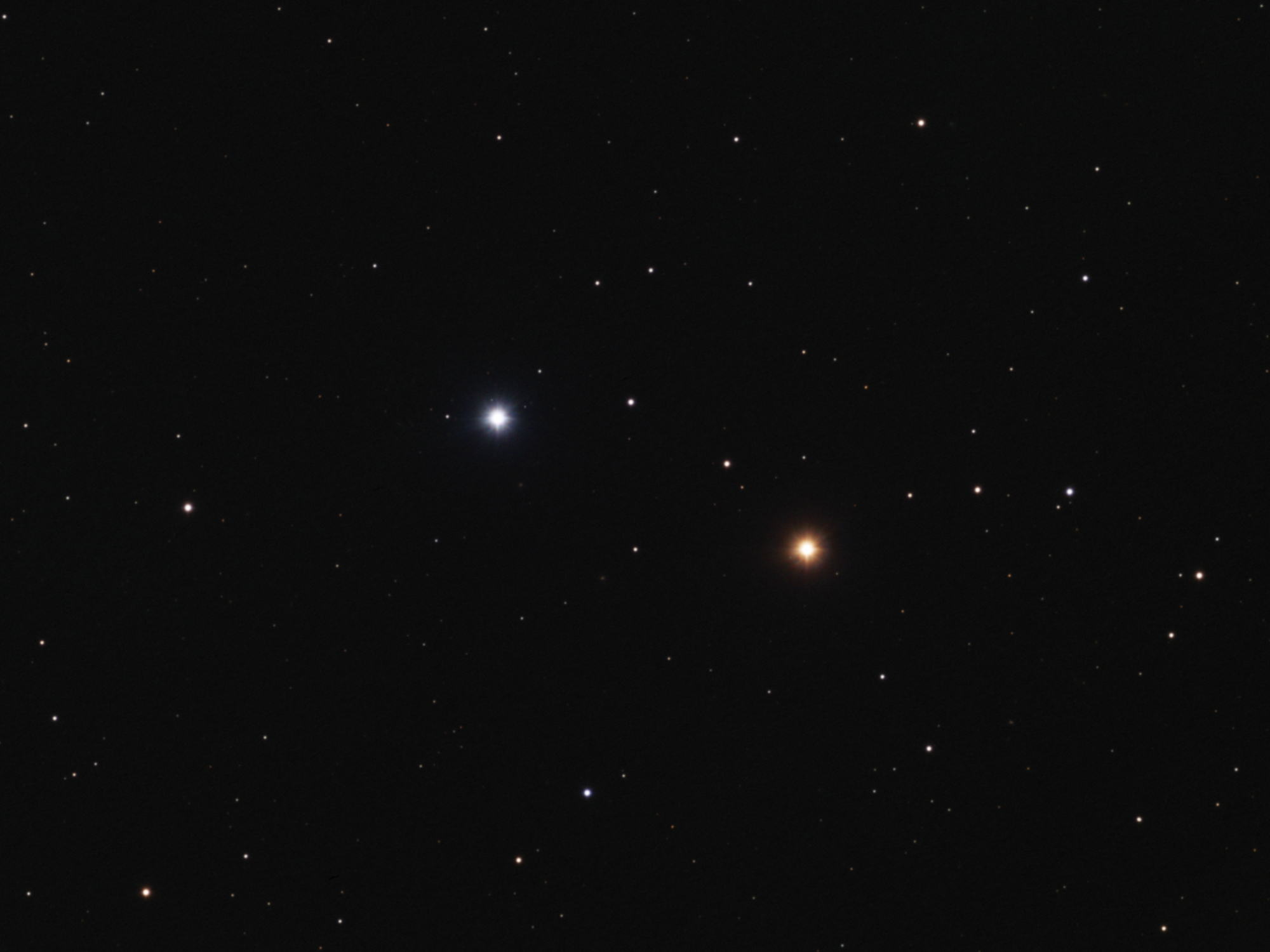 Nu1 and Nu2 Bootis in optical light